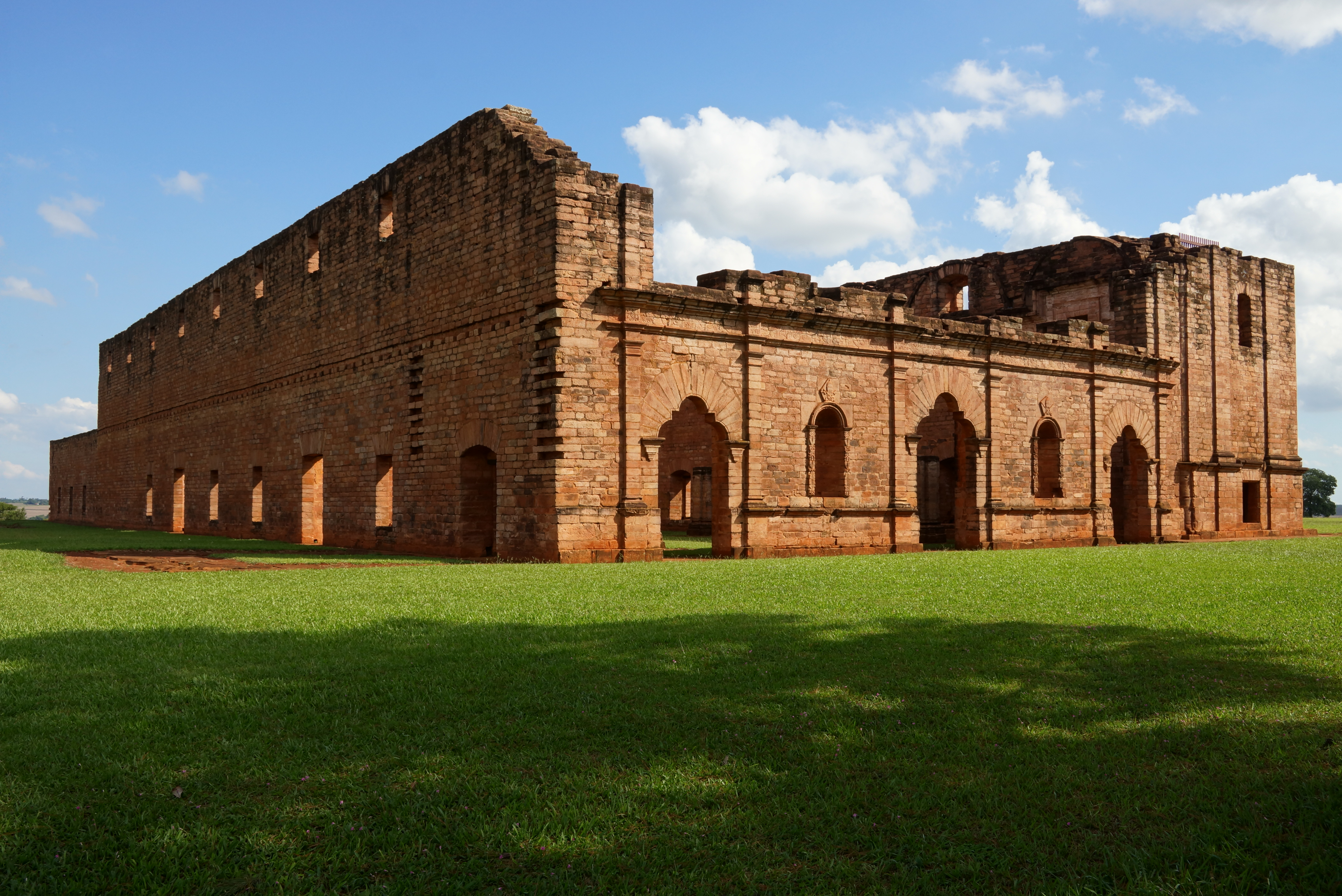 The church of the former Jesuit reduction of Jesús de Tavarangüe in southern Paraguay